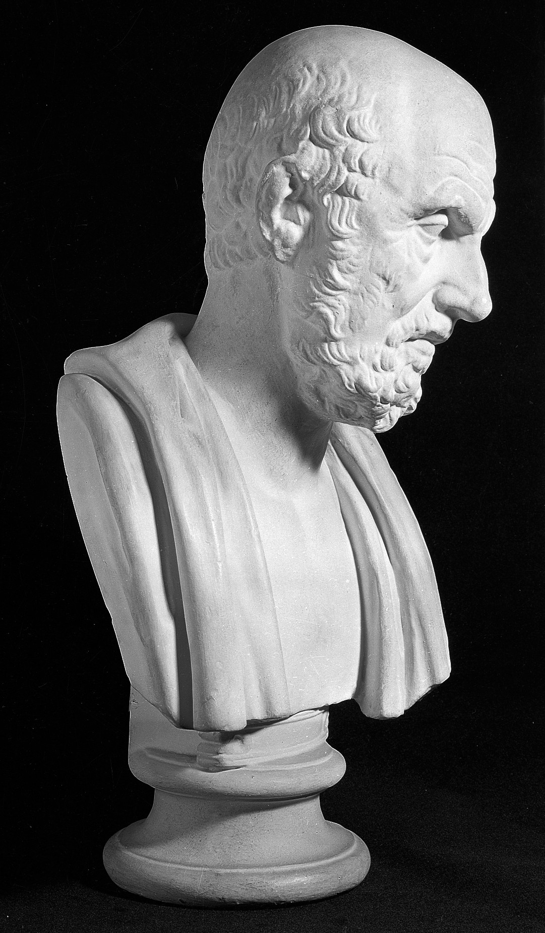 Facsimile of bust of Hippocrates in the British Museum. Wellcome Images Keywords: Ancient Greece; Hippocrates